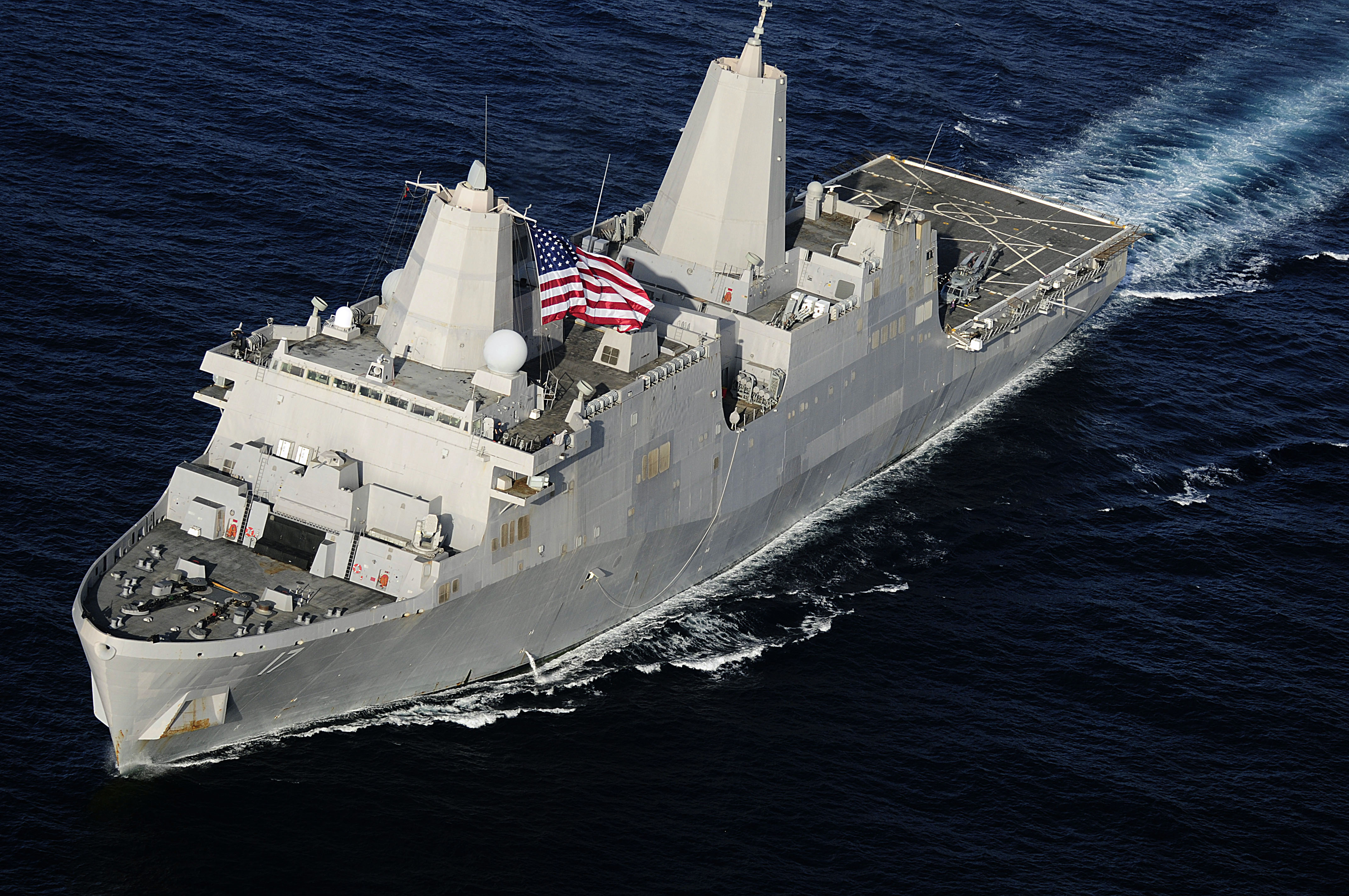 090112-N-7918H-284 GULF OF ADEN (Jan. 12, 2009) The amphibious transport dock ship USS San Antonio (LPD-17) transits the Gulf of Aden to serve as command ship for Combined Task Force (CTF) 151. The task force conducts counter-piracy operations in and around the Gulf of Aden, Arabian Sea, Indian Ocean and the Red Sea and was established to create a lawful maritime order and develop security in the maritime environment. (U.S. Navy photo by Mass Communication Specialist 3rd Class John K. Hamilton/Released)